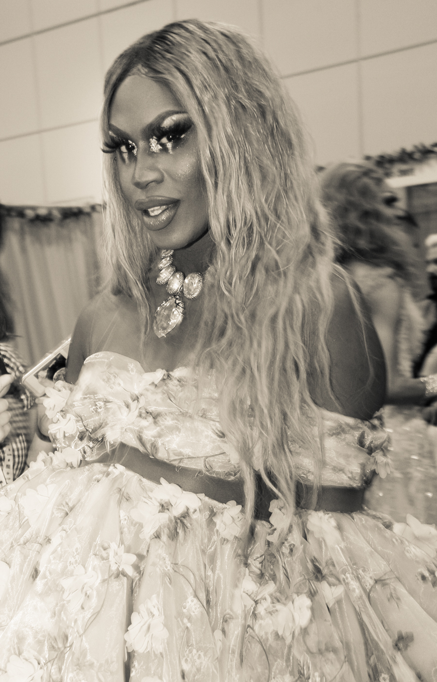 Shea Couleé at RuPaul's DragCon LA 2018